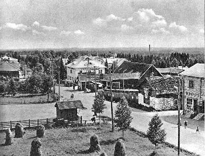 Centre of Värtsilä in the 1930es